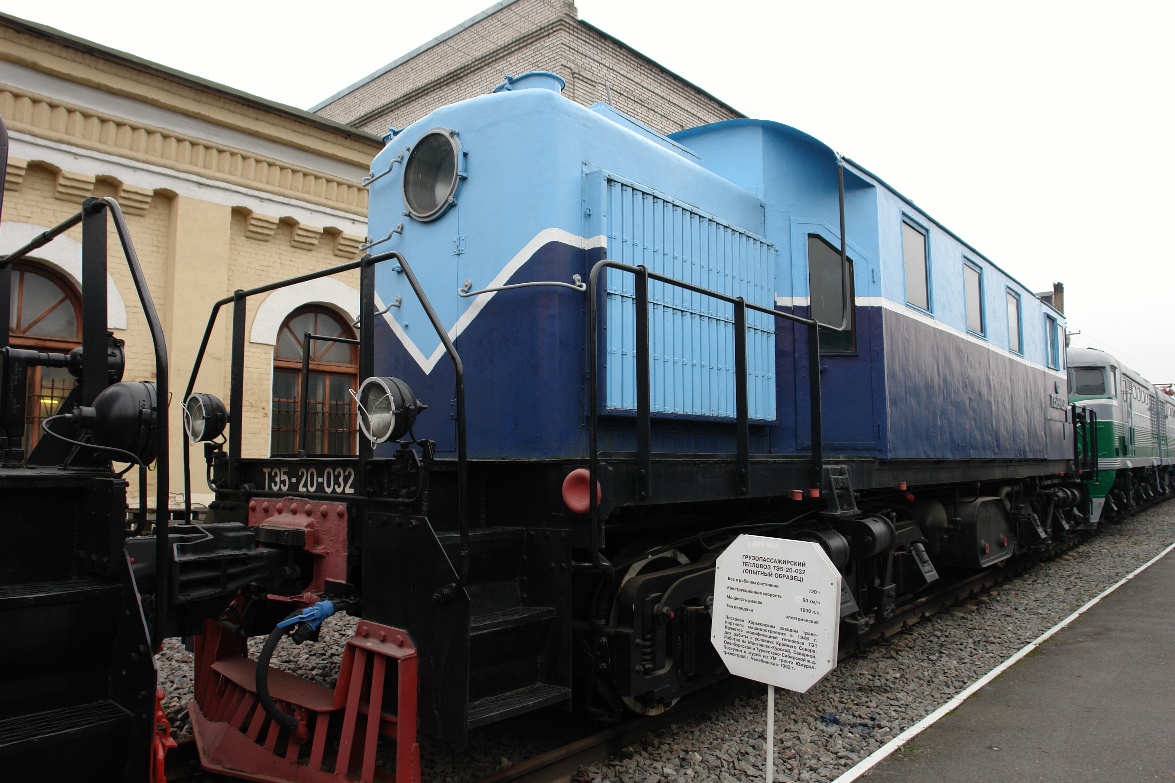 Freight and passenger diesel locomotive TE5-20-032 (test unit) Weight in working order120 t.Design speed93 kphPower1OOOhpTransmissionelectric Built by the Khar'kov Transport Machine-building Works in 1948. This Is a modification of the class TE1 diesel locomotive for use in the extremely low temperatures of the far north. Worked on Moscow-Kursk, Northern, Orenburg and Turkestan-Siberian railways. Received by the museum from the UM Trust at Cheliabinsk in 1992.